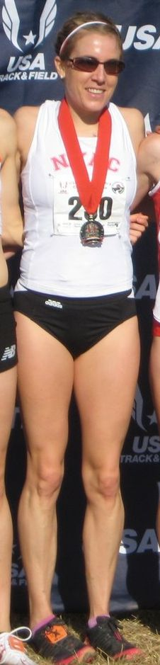 American runner Julie Culley at the 2009 US Cross Country Championships